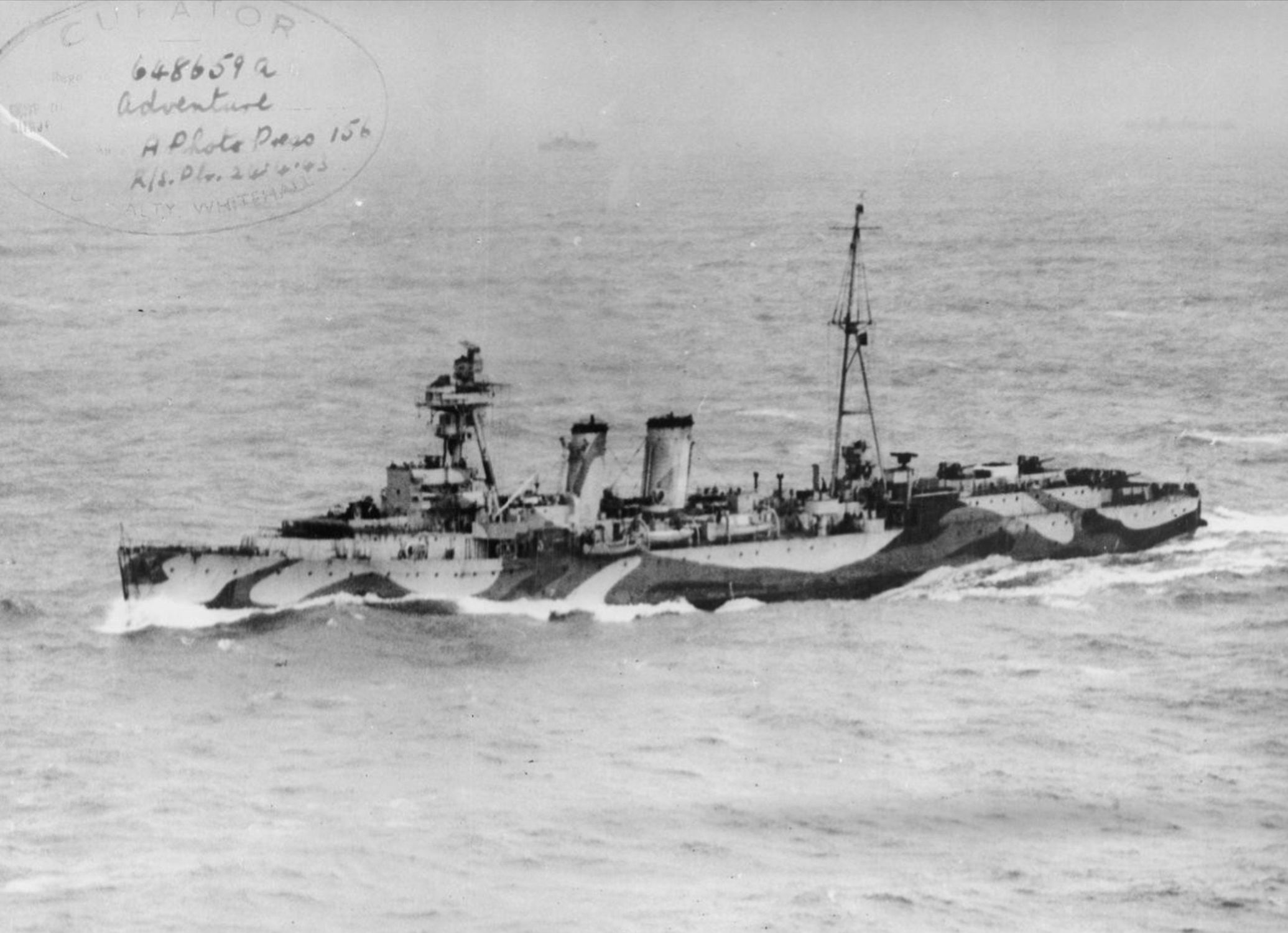 Aerial photograph of British minelayer HMS Adventure.